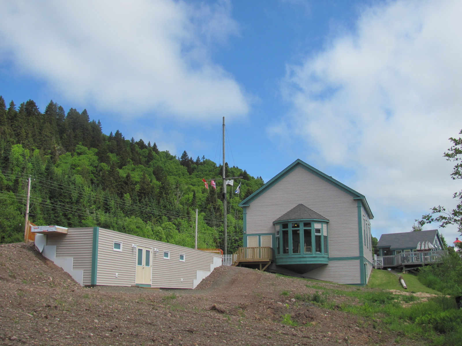 Construction of the expansion to the Age of Sail Museum in Port Greville, Nova Scotia